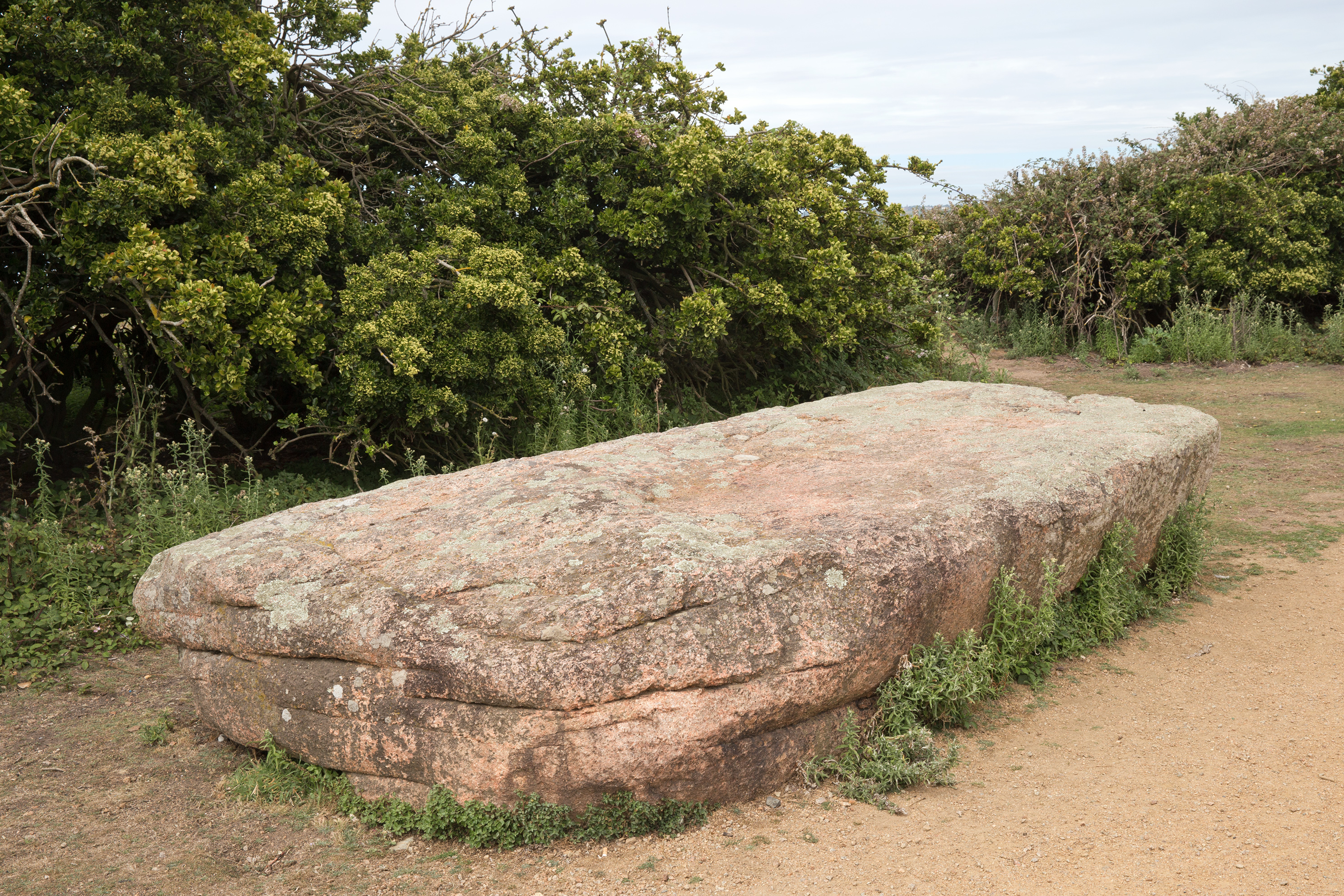 Island of Jersey, La Table des MarthesEsperanto: Insulo, La Table des Marthes